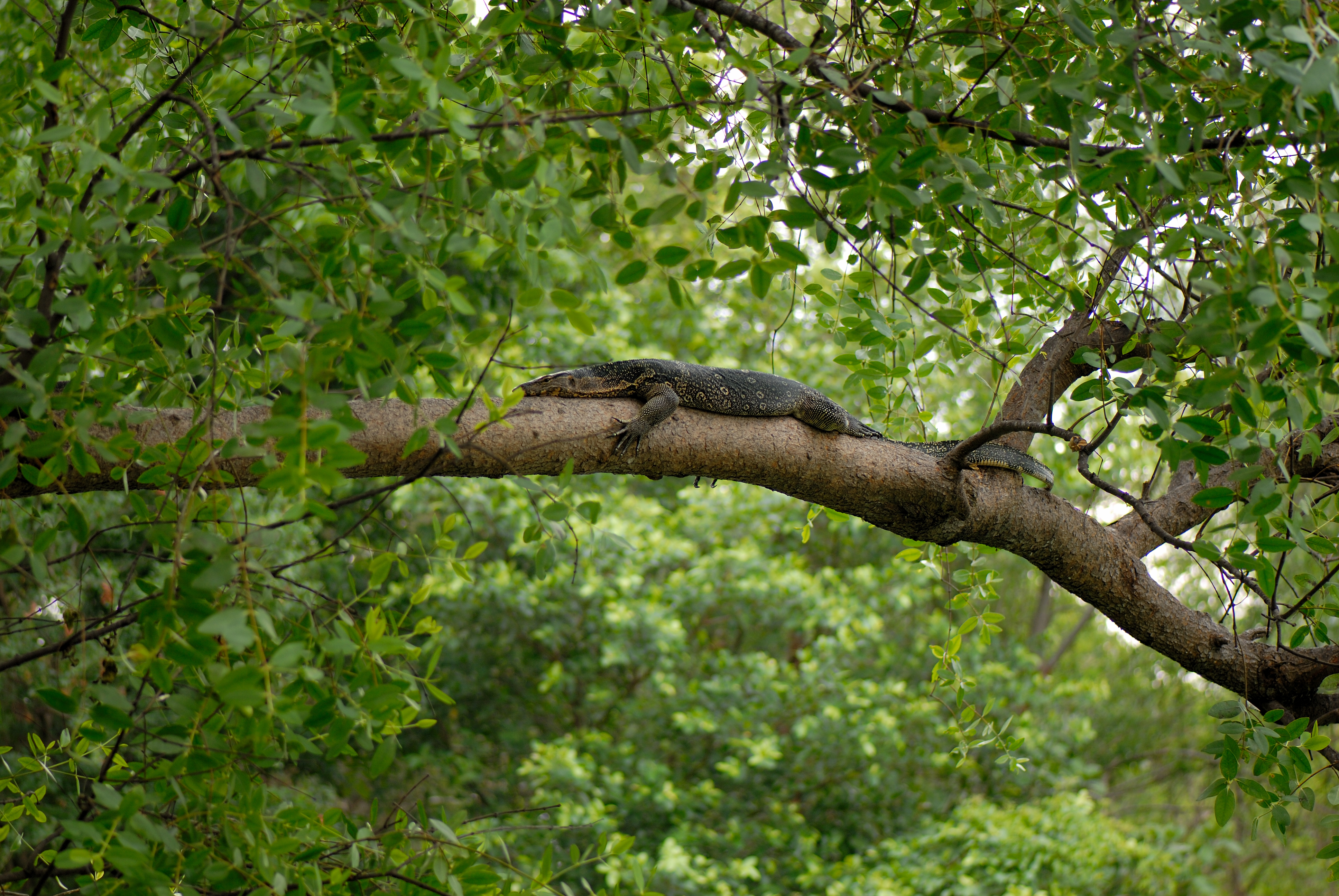 A Water monitor, Rama9 Park, Bangkok, Thailand Camera data Camera Nikon D200 Lens Nikkor 105 VR Macro Flash Umbrella Focal length 105 mm Aperture f/2.8 Exposure time 1/20 s Sensivity ISO 100